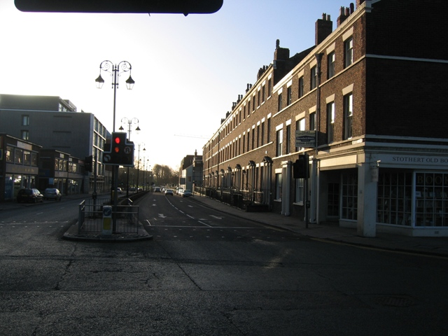 Looking south along Nicholas Street The stylish row of Georgian Houses on the right miraculously survived the construction of the inner ring road. Across the road are modern buildings. Fortunately the sun is only on one side of the street. Stothert Old Books is on the corner with Watergate Street.